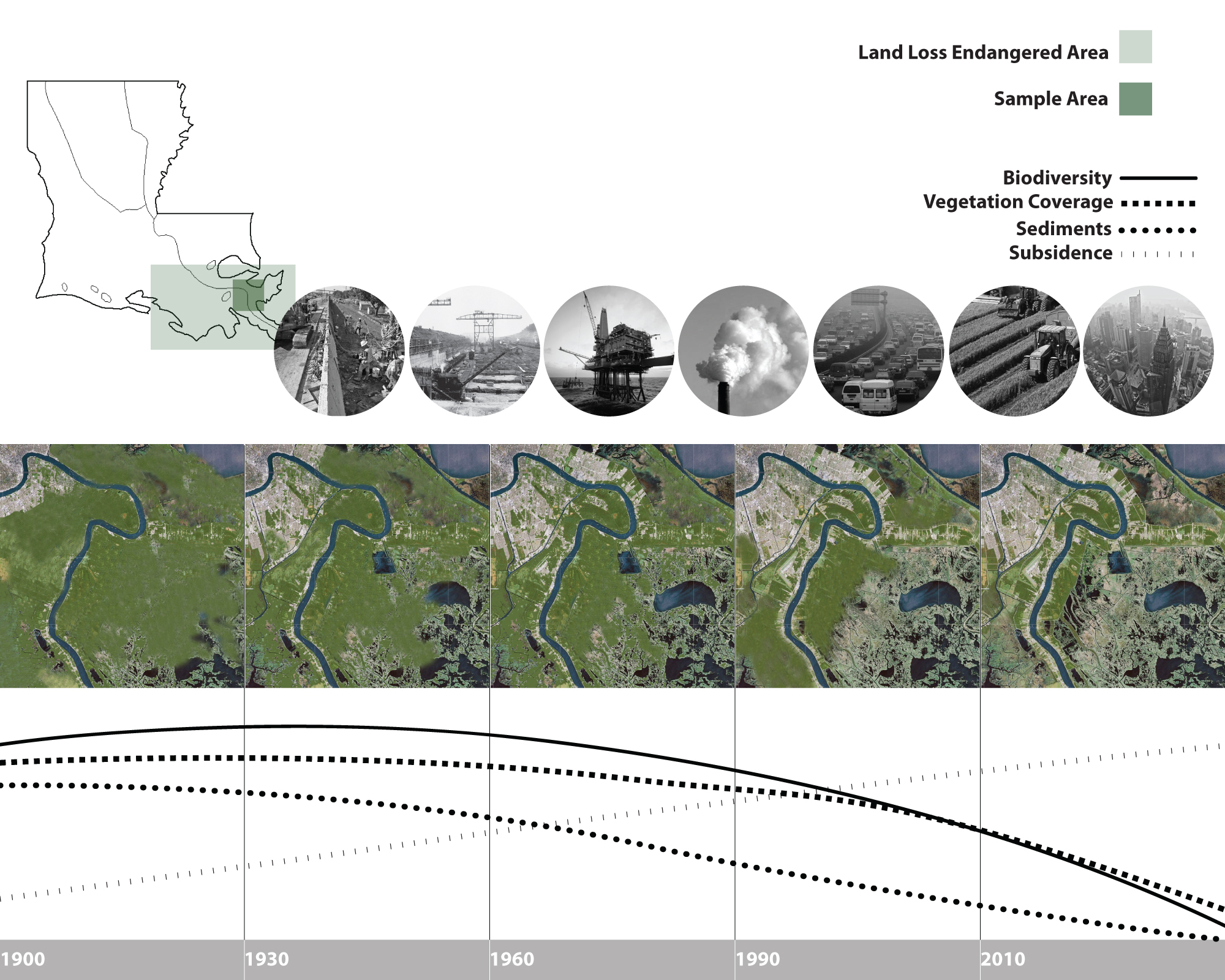 maps of a section of southern Louisiana showing wetland lose through out time; the images of human activities on the area; the changes of subsidence, biodiversity, vegetation coverage and sediments.